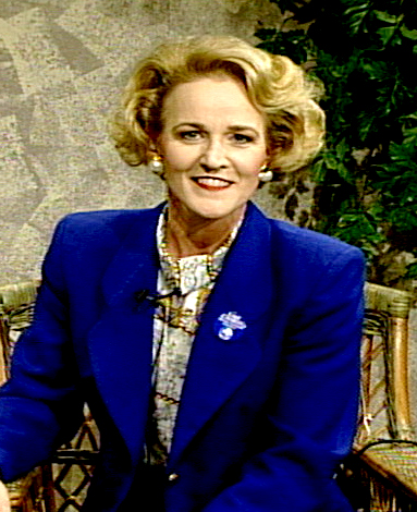 Willie Mount in a screenshot of a video of the "Moving Forward Together: with Willie Mount" show